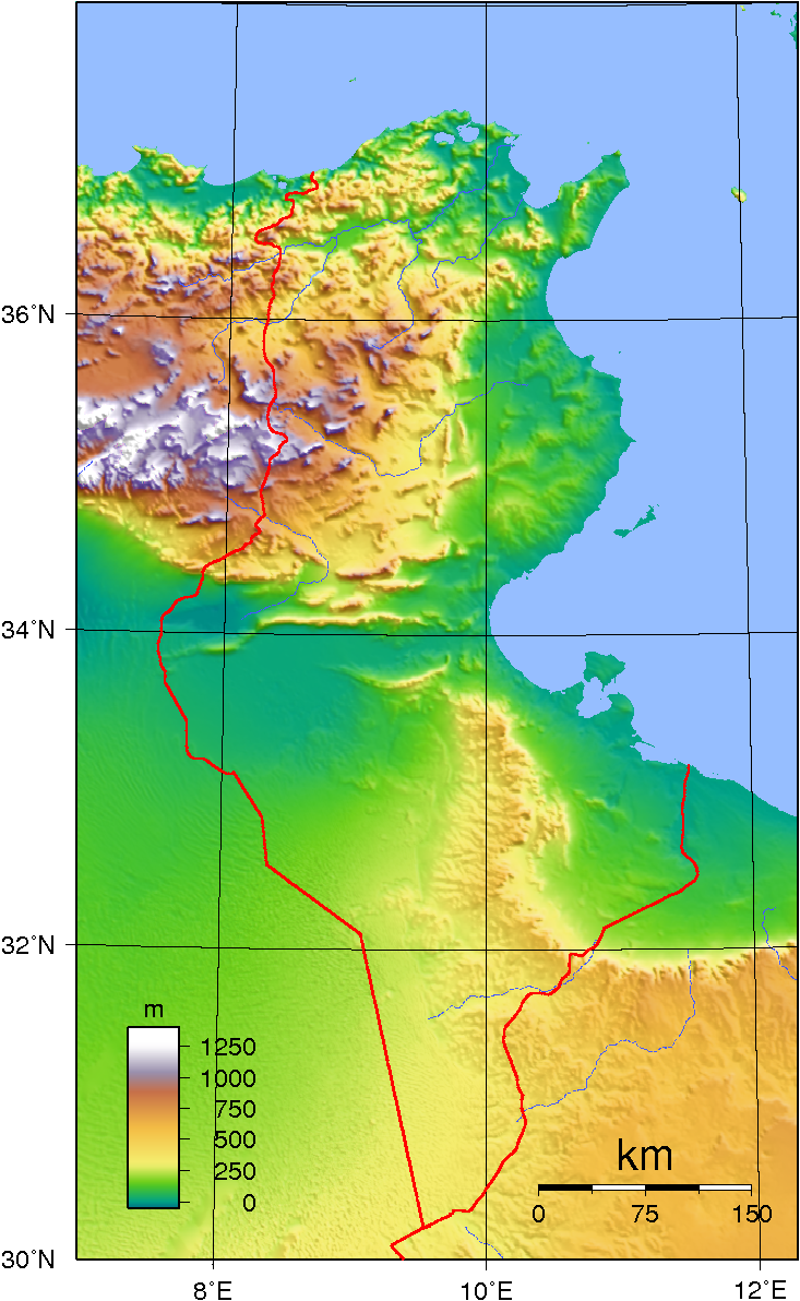 Topographic map of Tunisia. Created with GMT from SRTM data.